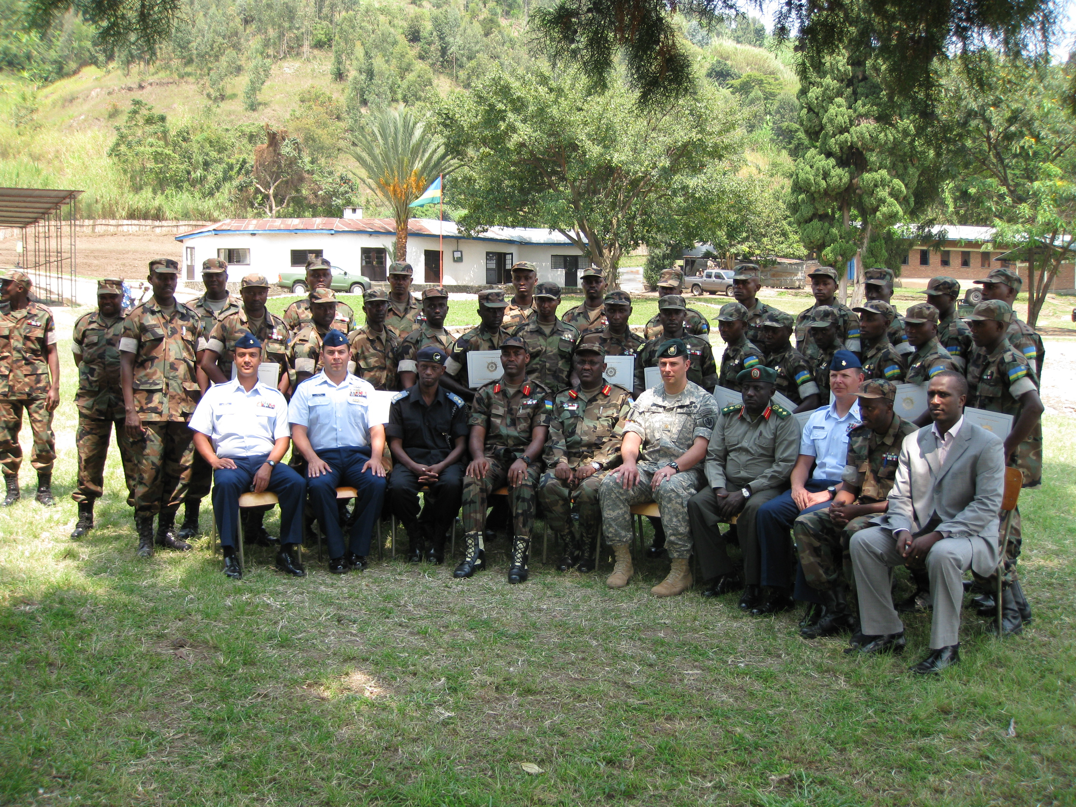 Trainees, trainers and guest at the course training ceremony